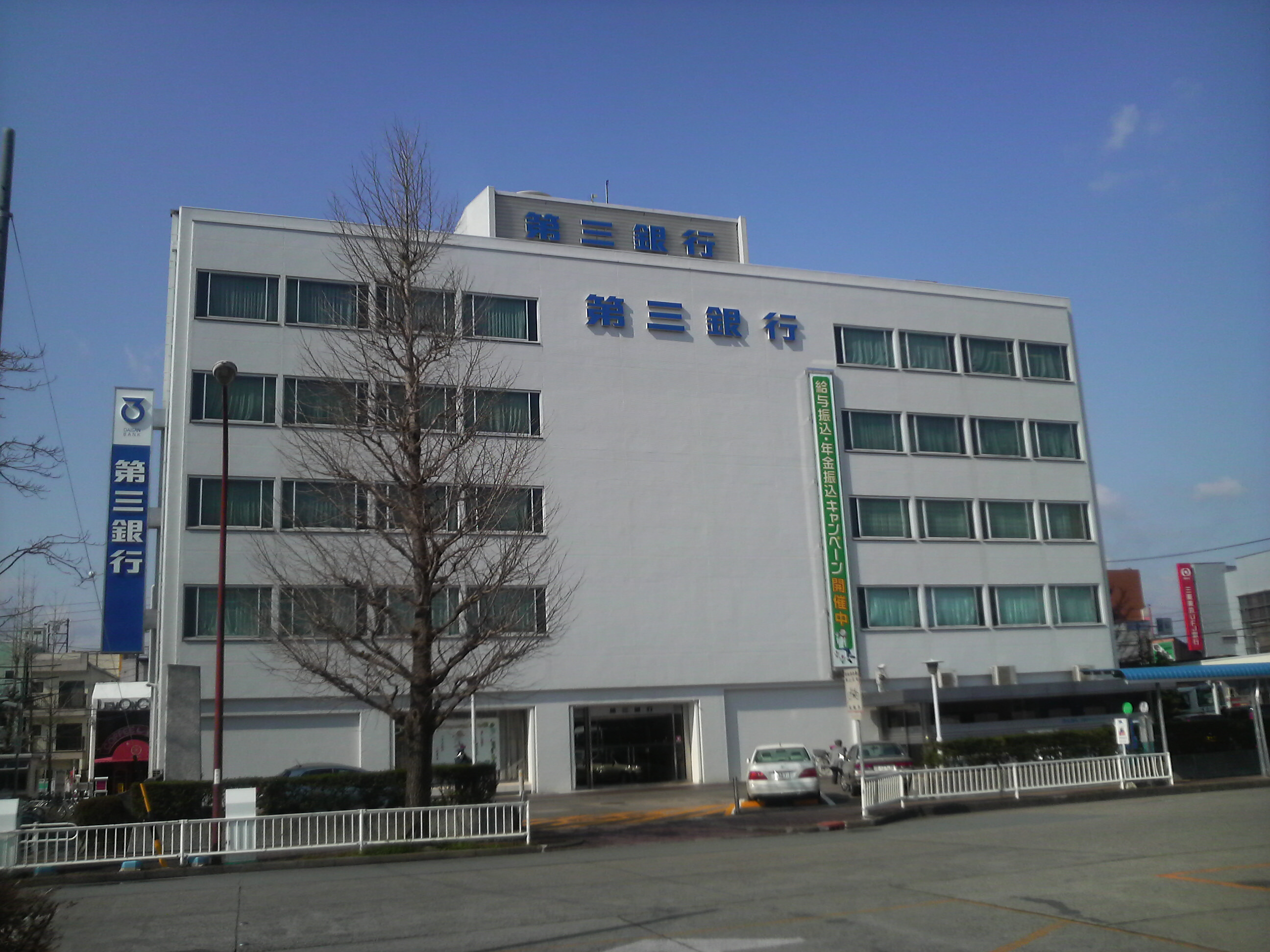 "The Daisan Bank" Headquarters Building in Matsusaka, Mie, Japan.